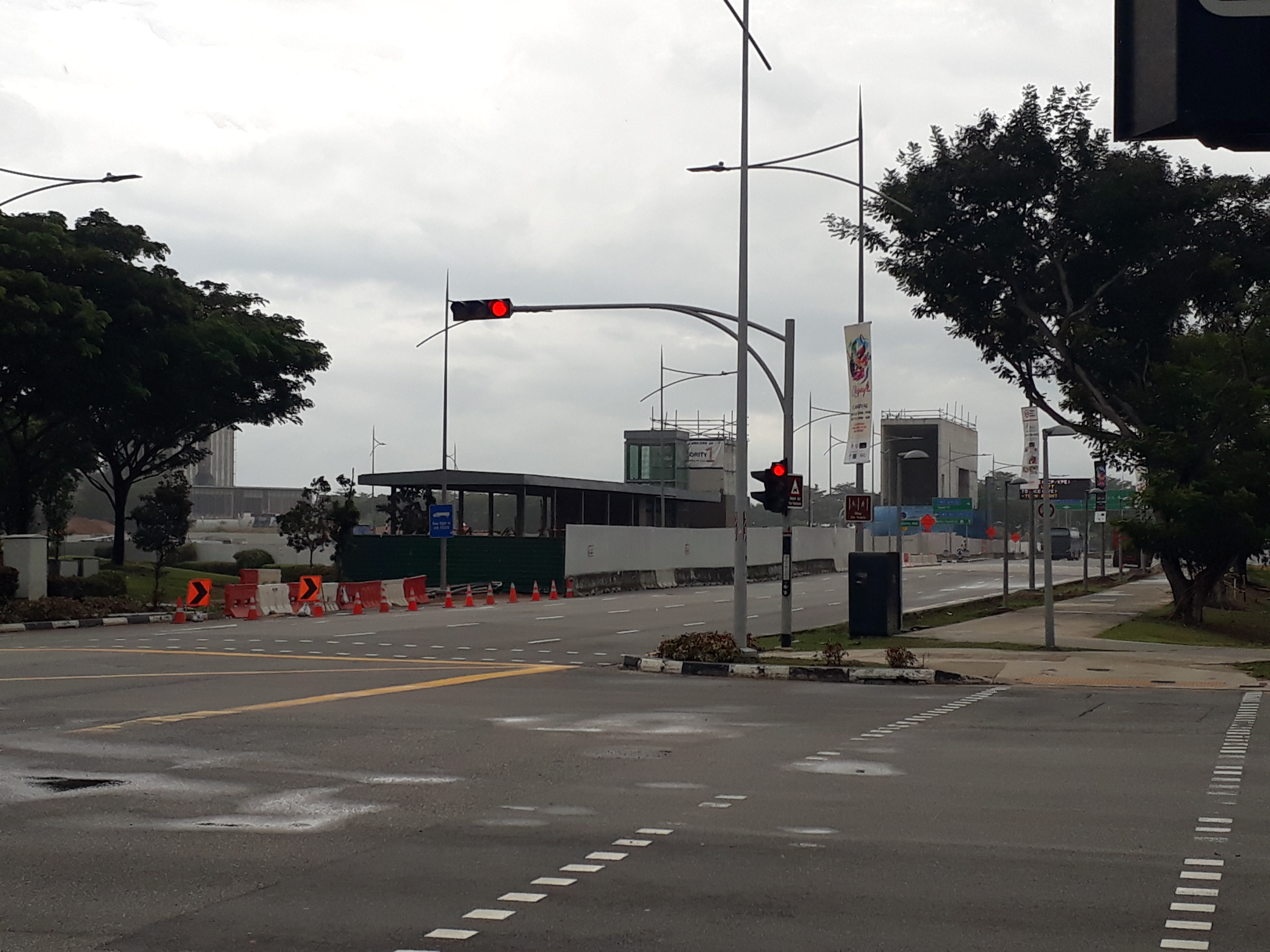 TE21 Marina South